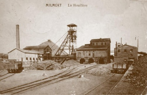 Milmort Coal Mine in Herstal, Liège, Belgium